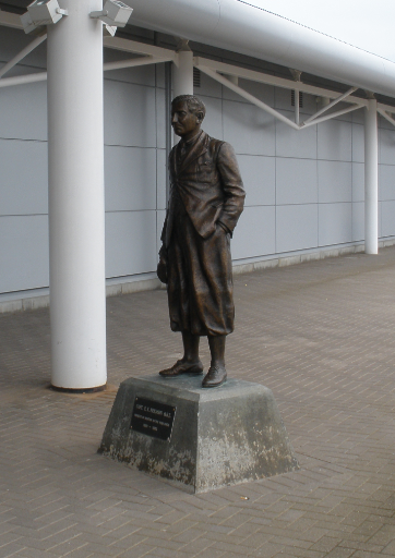 Statue of Captain Ted Fresson, OBE, 1891-1963, pioneer aviator who established Highland Airways